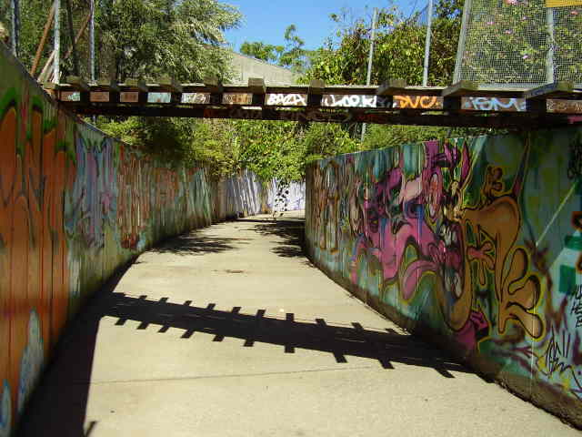 Second Creek near St Peters, South Australia Adelaide. One of the tributaries of River Torrens.